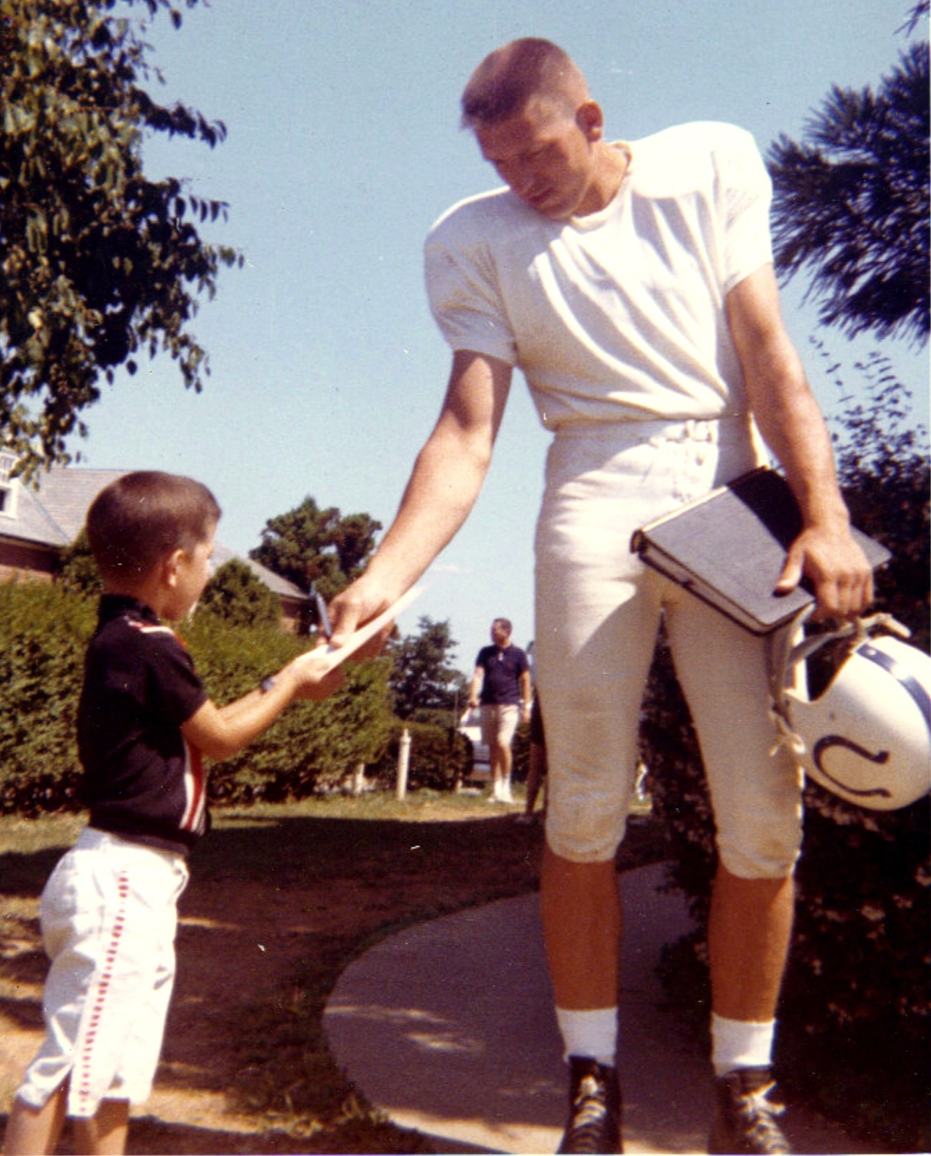 Johnny Unitas signing an autograph at the Baltimore Colts' Westminster training camp.